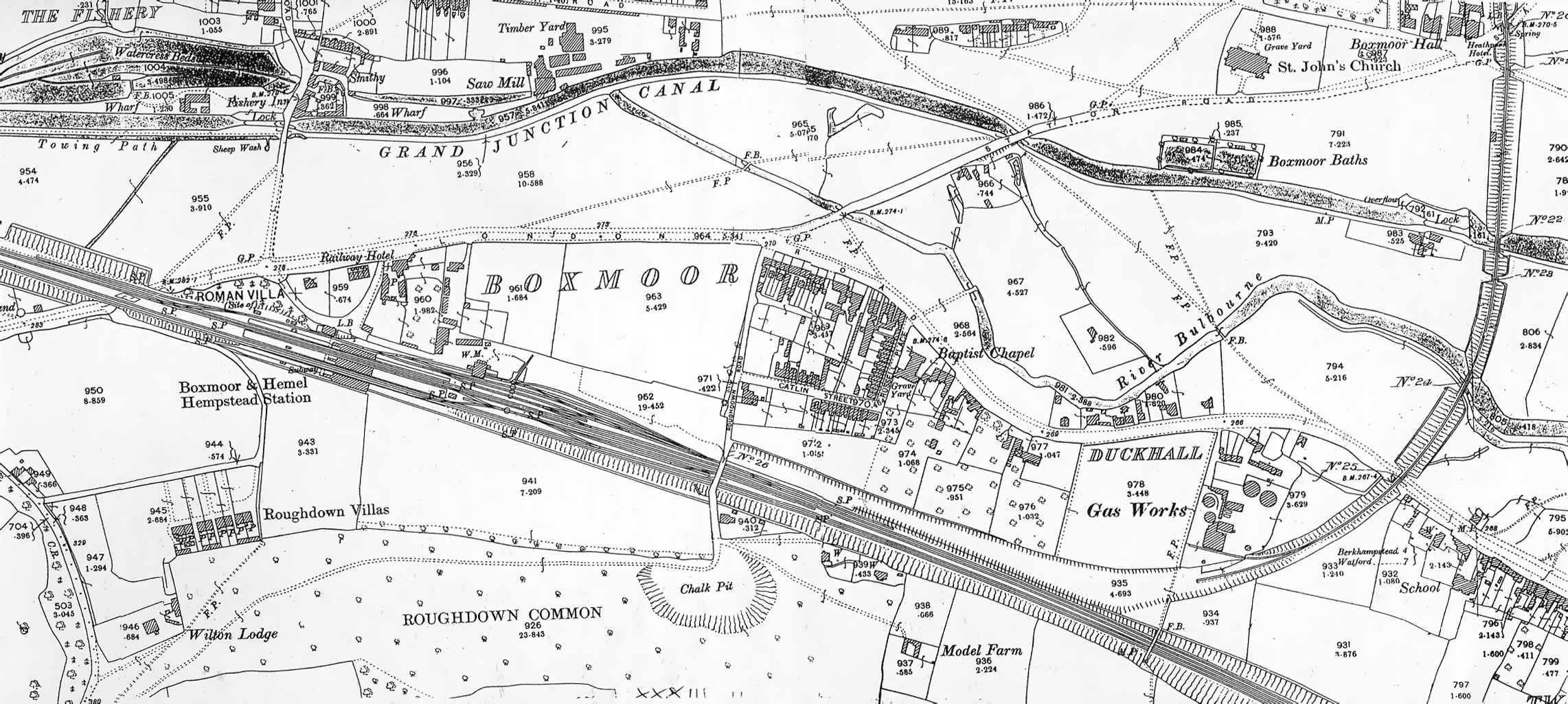 1898 OS map showing the layout of Boxmoor railway station (now Hemel Hempstead) on the LNWR